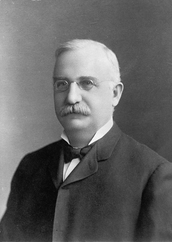 Herman P. Goebel, Republican representative from Ohio, head-and-shoulders portrait